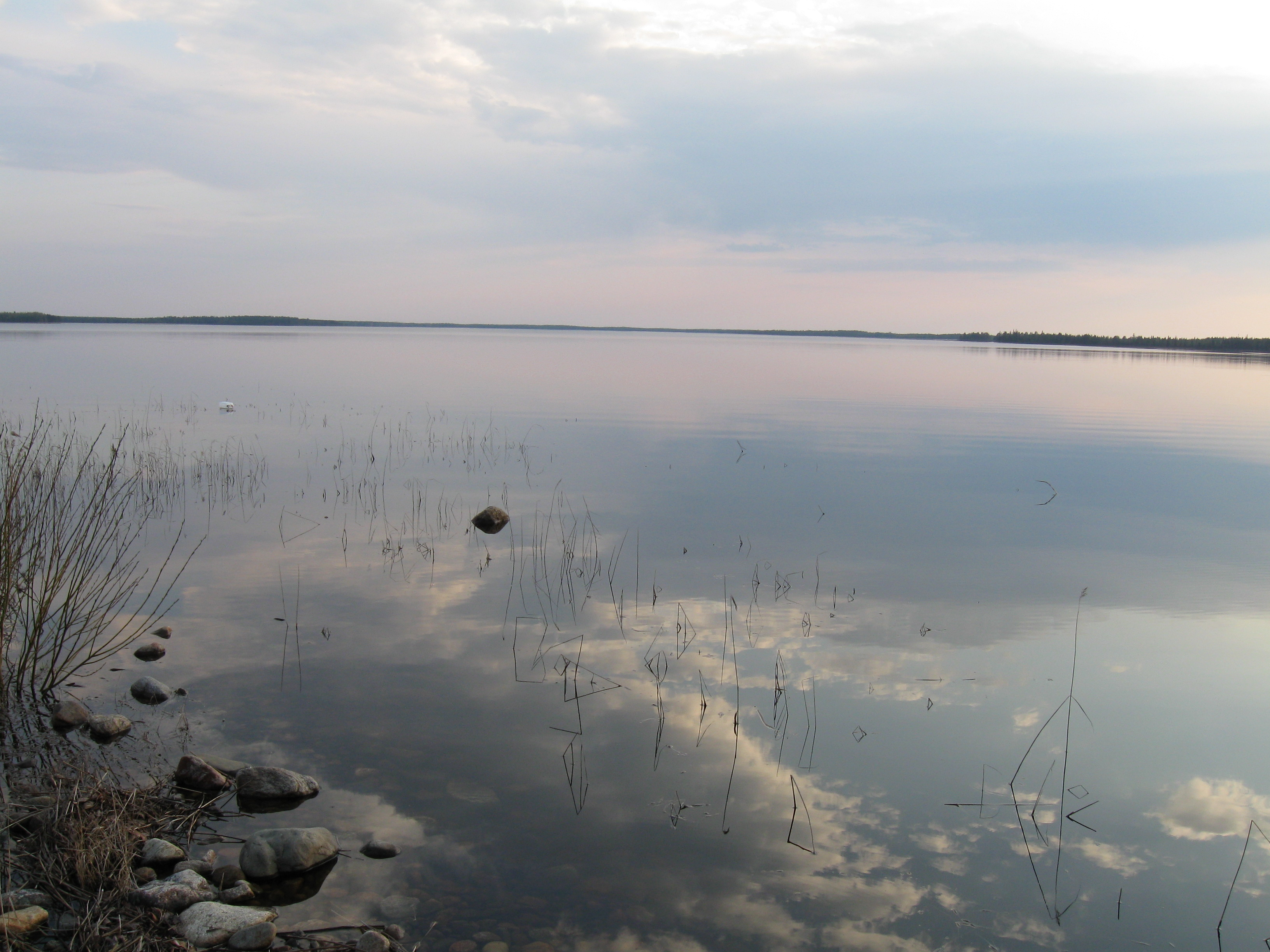 The lake Otermanjärvi in Vaala, Finland, from Joensuunperä towards Kekkolanselkä in the South-West.